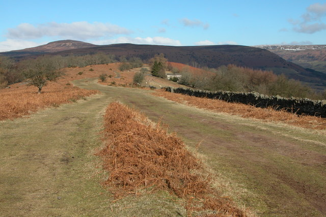 The Black Mountains to the north-west of Gaer. This track leads along the ridge between the Vale of Ewyas and the valley to the west containing the Grwyne Fawr reservoir. The isolated house is at The Rock. The summit in the distance is Bal Mawr which is reached by continuing along this track.